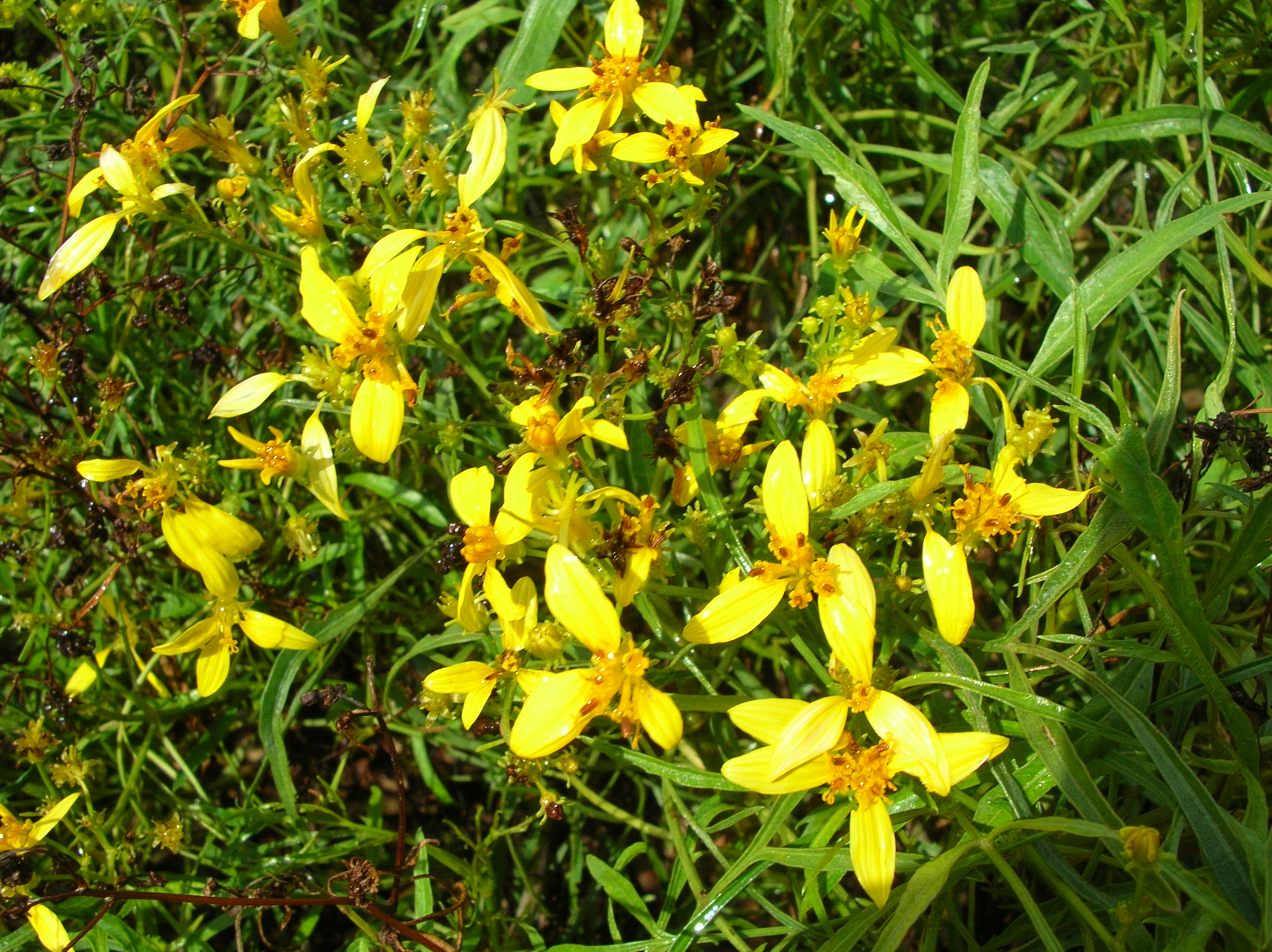 Bidens menziesii (flowers). Location: Maui, Maui Nui Botanical Garden